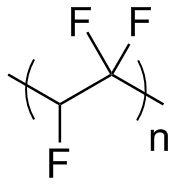 Structure of Poly(trifluoroethylene).